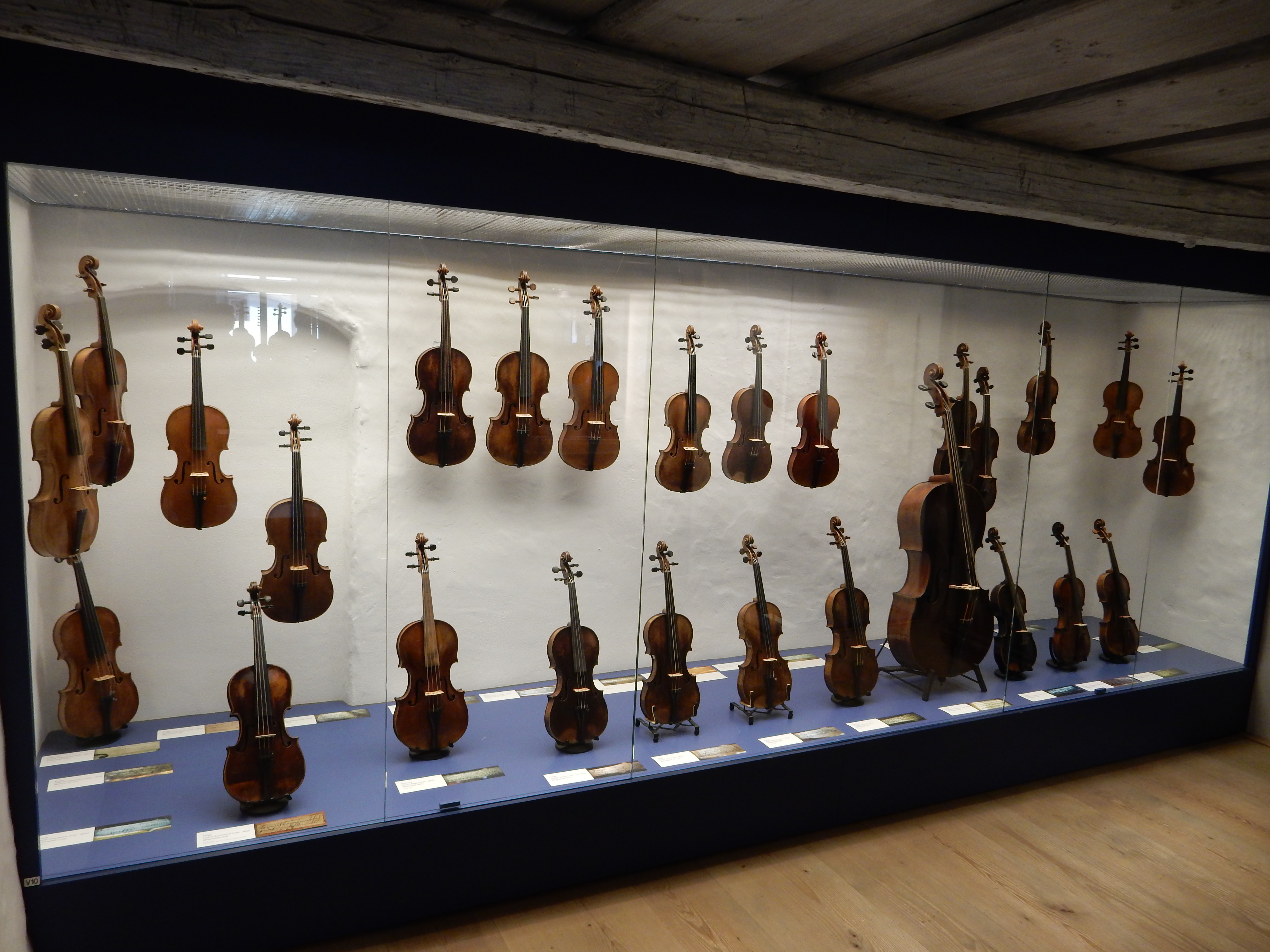 Collection of string instruments at violin makers museum at Mittenwald, Bavaria, Germany